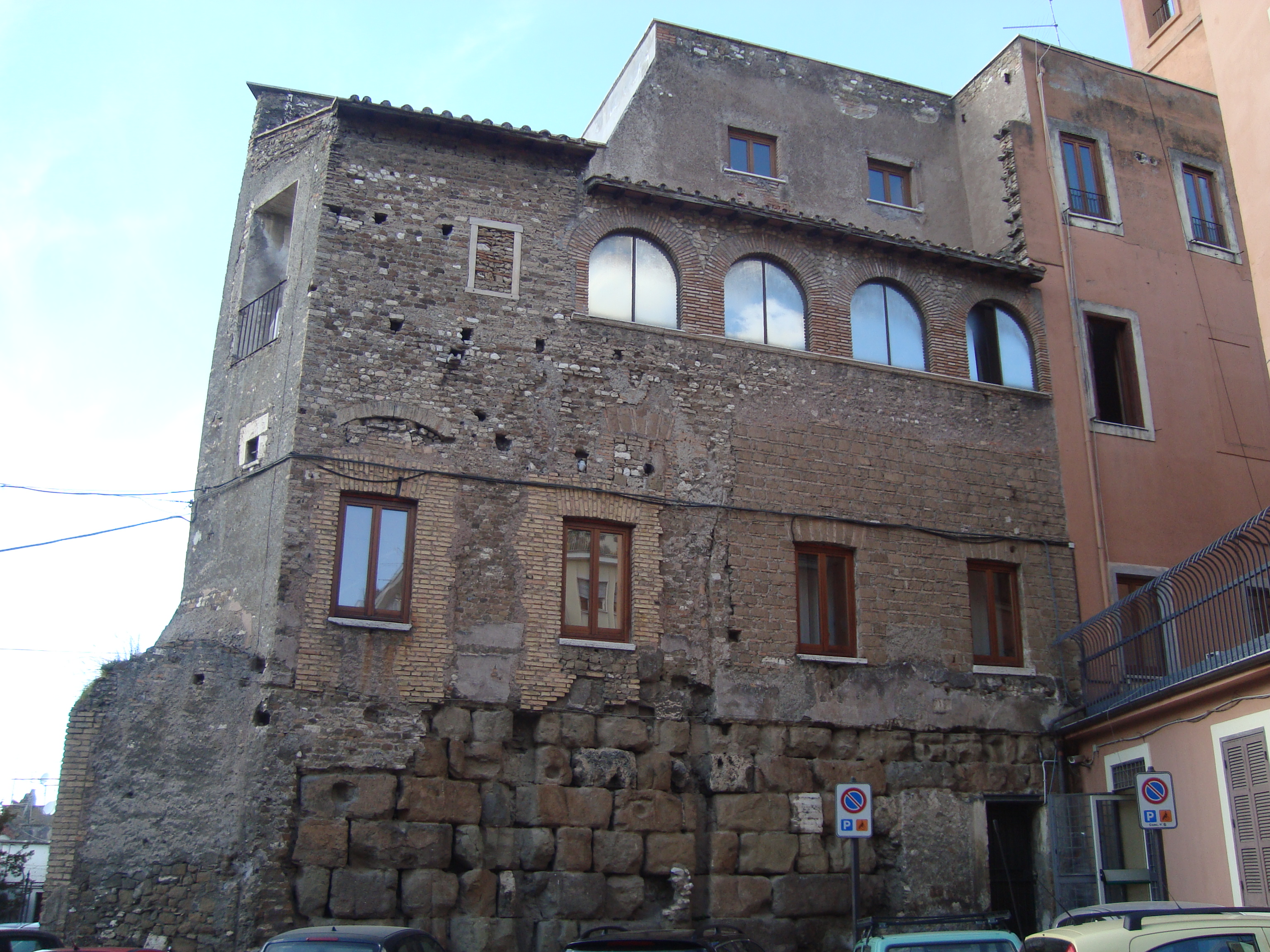 View of the antique walls and the surmounted houses in Tivoli dating from the 4th century BC. Nowadays, they sustain the palazzo San Bernardino (home of the cityhall).